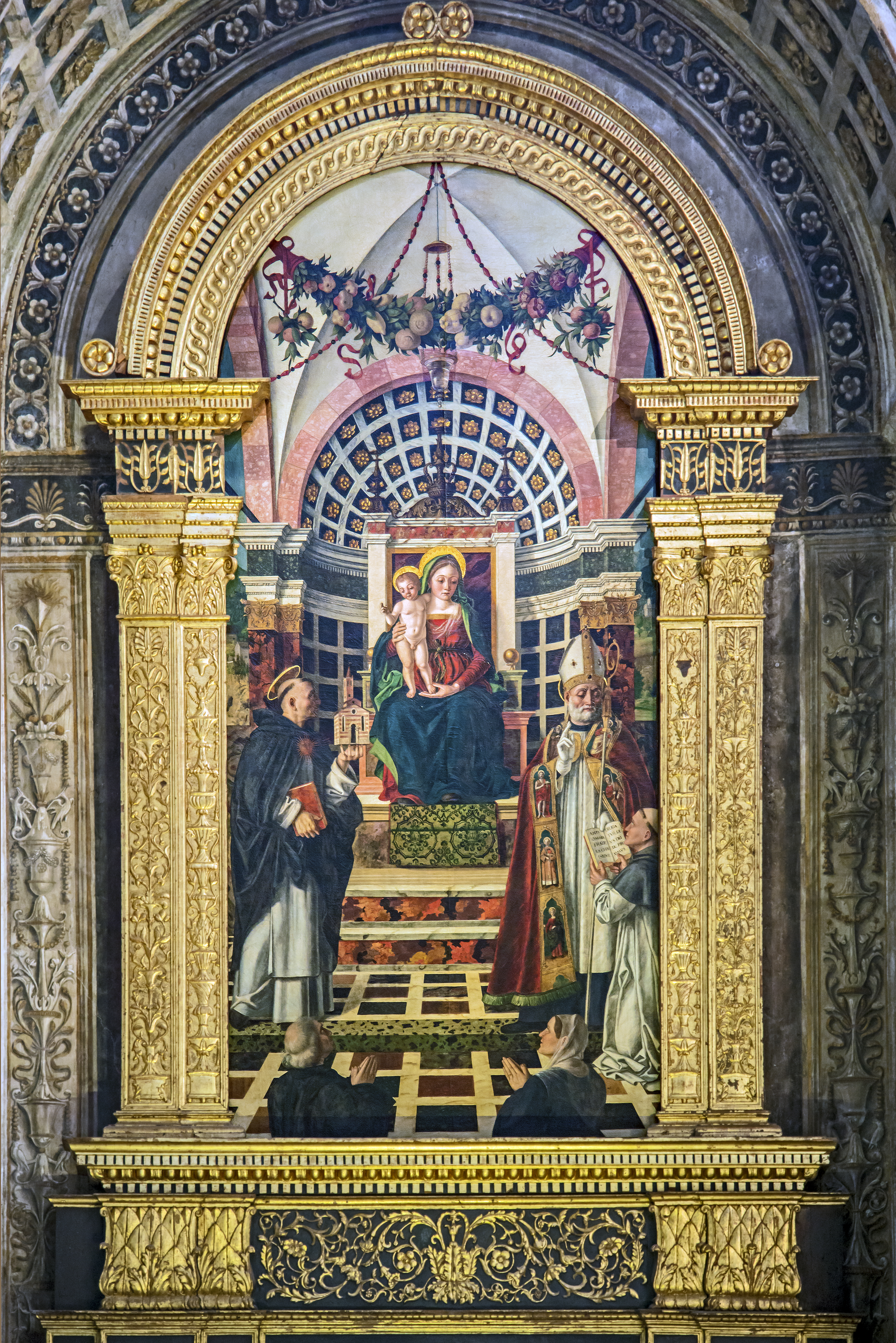 Basilica Santa Anastasia. Altar Centrego 1436. The table of the altarpiece Our Lady enthroned between St. Thomas and St. Augustine" is by Girolamo dai Libri.